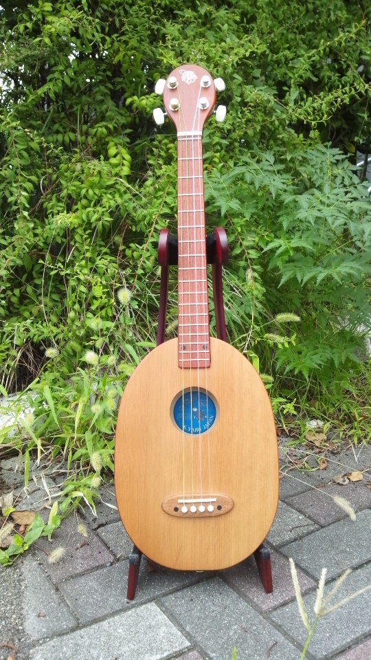 Kanai model of Ichigo ichie from 2010